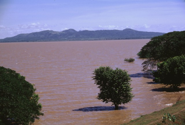 The broad Chiltepe Peninsula rises to the SE across the flood-stained waters of Lake Managua. Apoyeque caldera lies beyond its horizontal rim on the right-center horizon. The 11-km-wide peninsula extends into Lake Managua and marks the northern limit of a segment of the central Nicaraguan volcanic chain that is offset to the east.